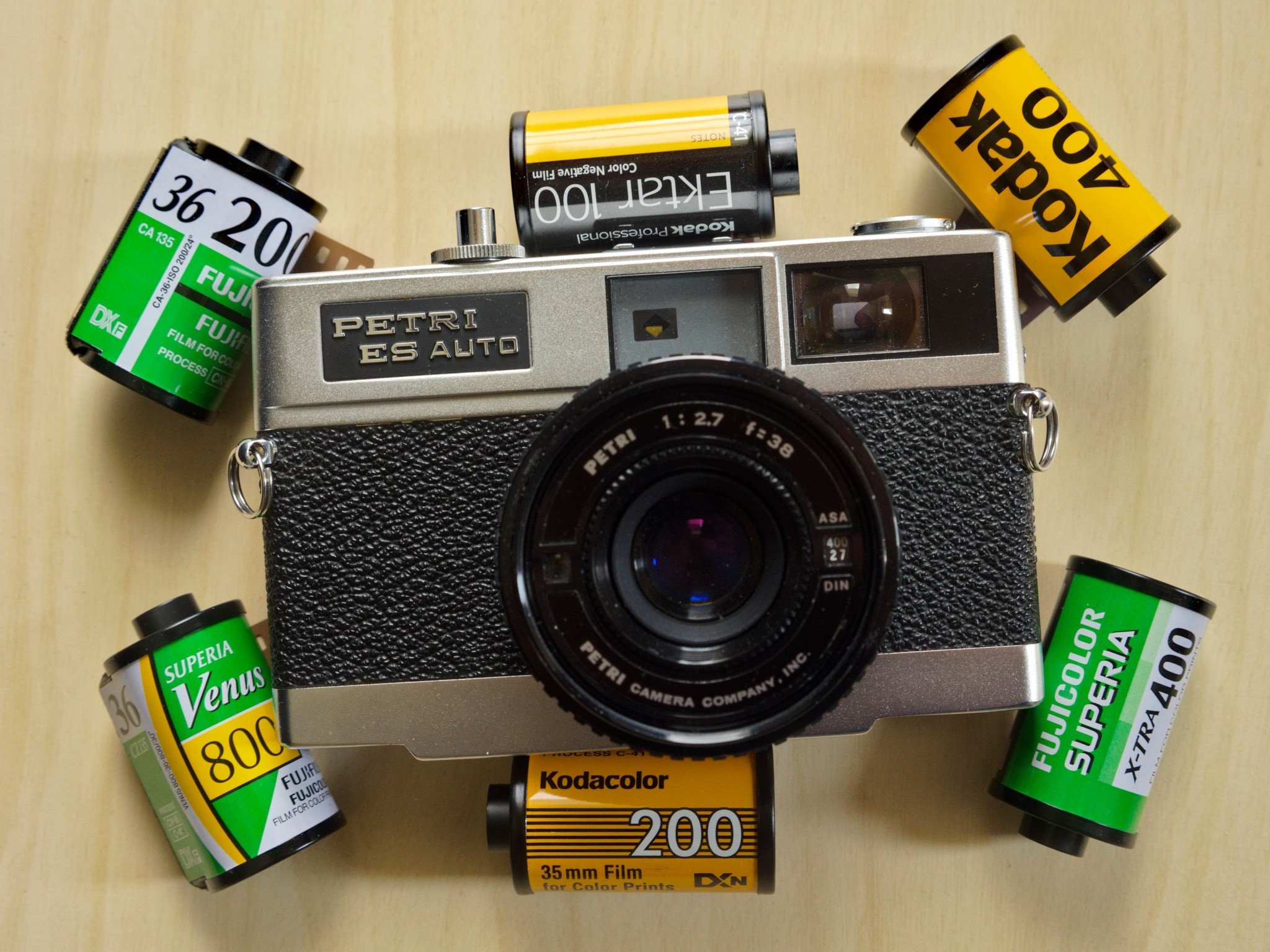 Petri ES Auto 1:2.7 f=38mm film camera and Fujifilm C200, Kodak Ektar 100, Kodak Ultramax 400, Fujifilm Superia X-tra 400, Kodak Kodacolor 200 and Fujifilm Superia Venus 800 35mm film cartridges.